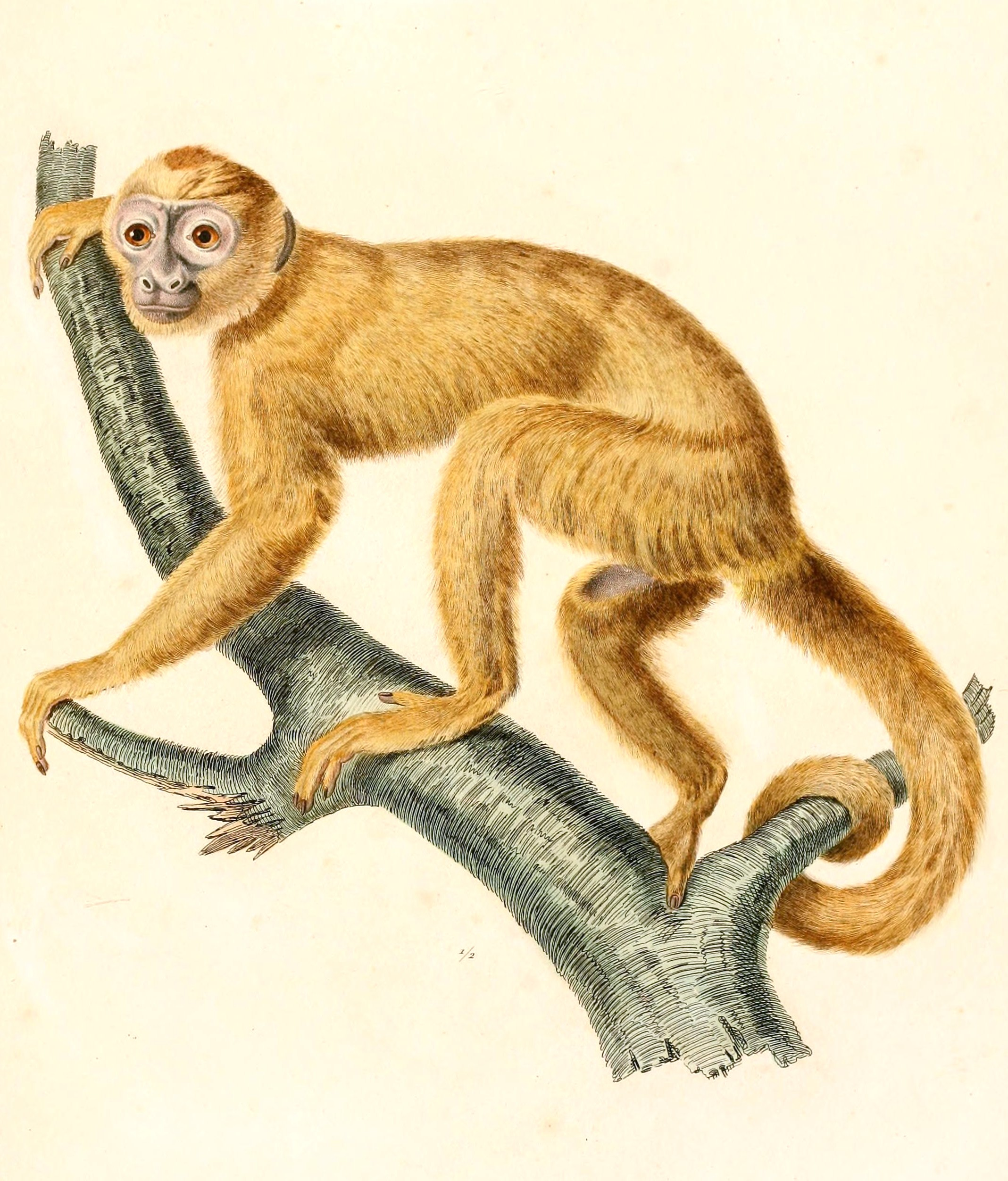 « Cebus fulvus » = Cebus flavius (Blond capuchin)